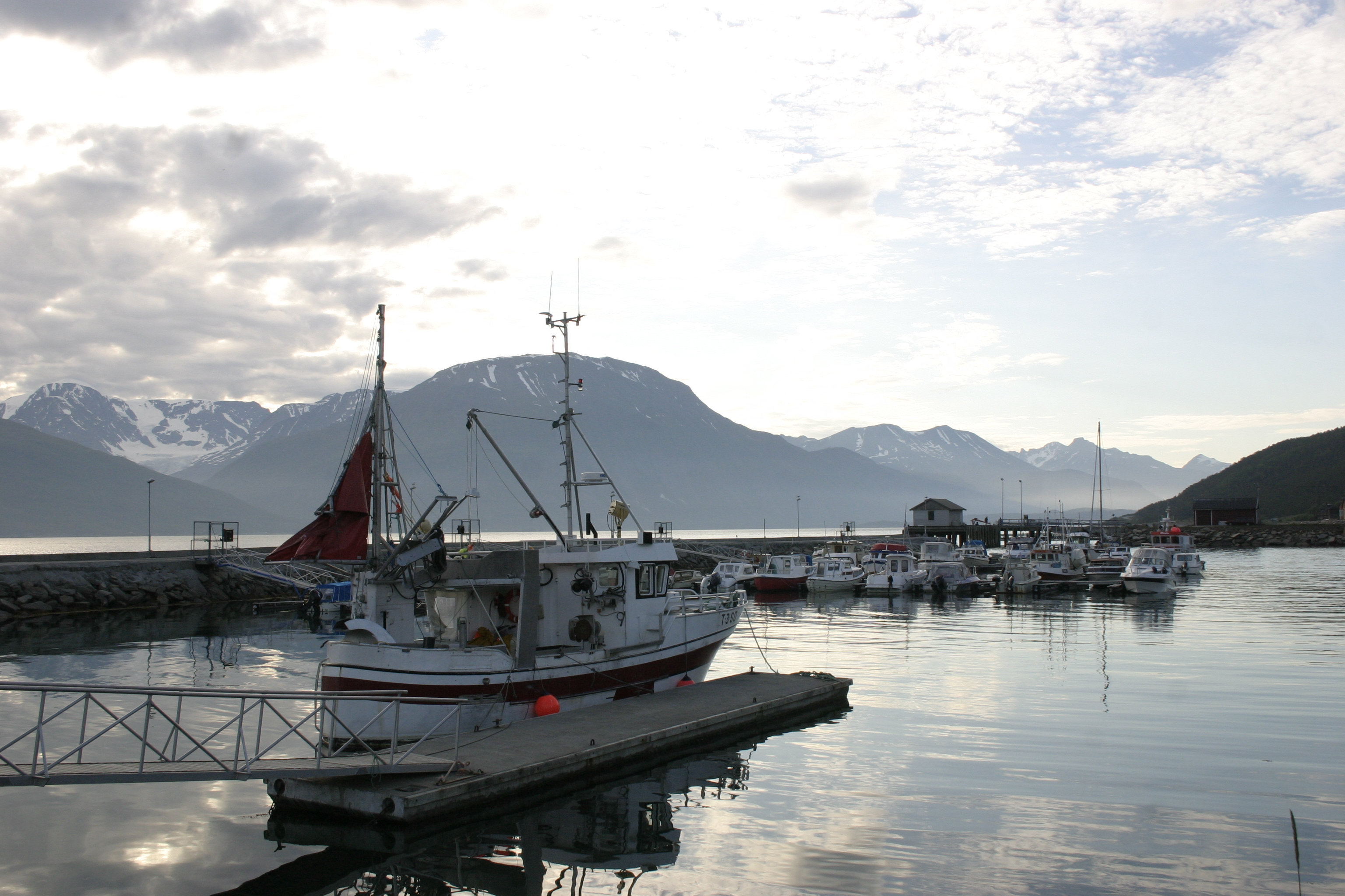 The harbor of Skibotn, Norway. The photo was taken in the evening of July 13th, 2008.